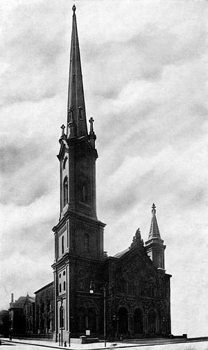 Tenth Presbyterian Church in Philadelphia at its current location at 17th and Spruce. The spires, built of pine, were removed in 1912 because structural damage.